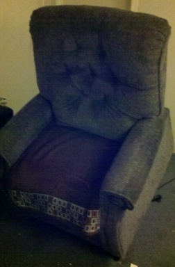 what is a Medicare supplement is a type of health insurance sold by private insurers to cover the gaps in Medicare. This is what we refer to the plans as Medigap Plans.